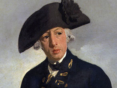 Arthur Phillip.